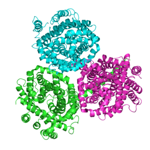 Cornyebacterium glutamicum betain transporter BetP. PDB 3p03